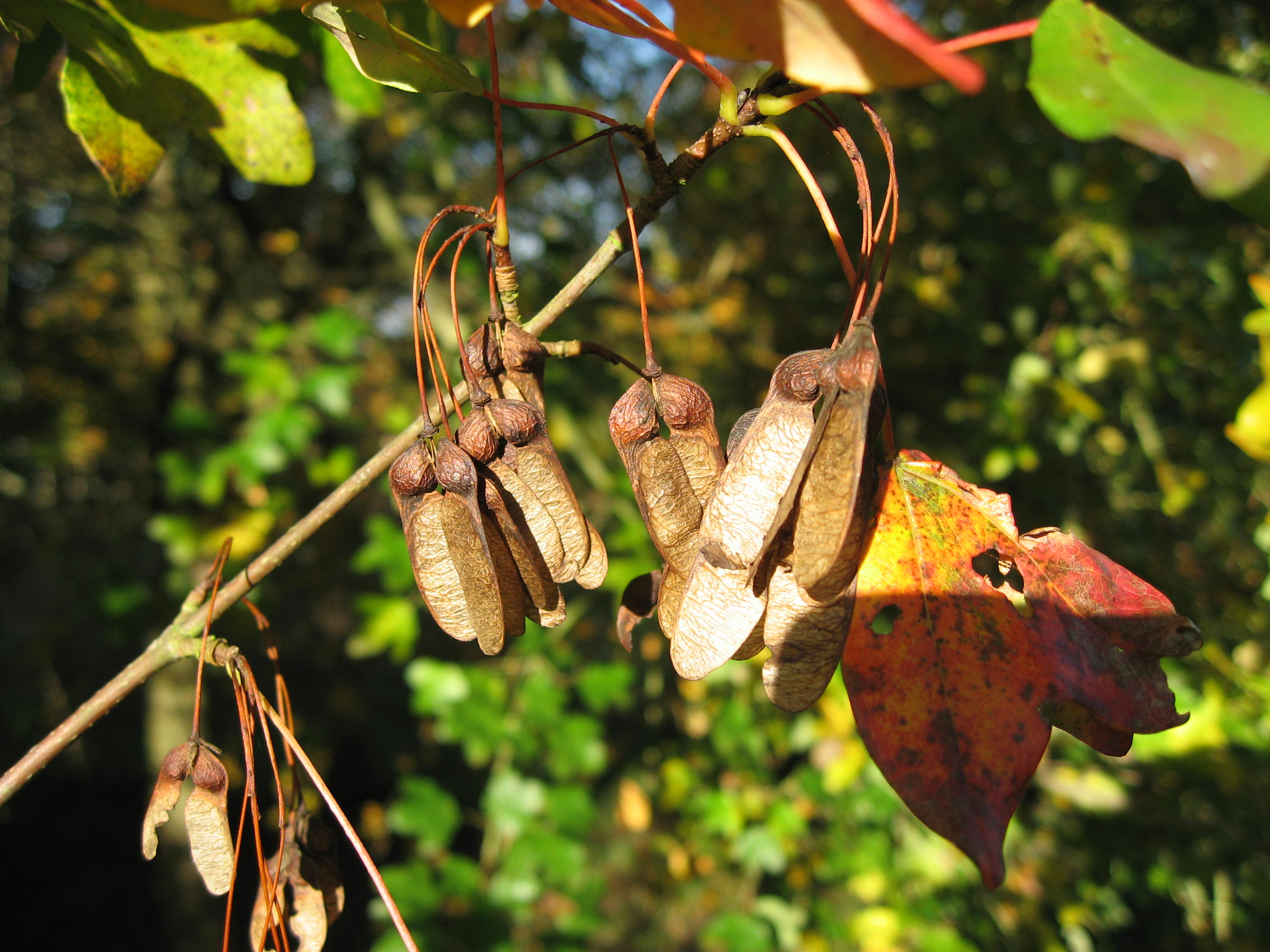 Acer monspessulanum in Arboretum de La Roche-Guyon Map: 49° 5' 56" N 1° 38' 23" E